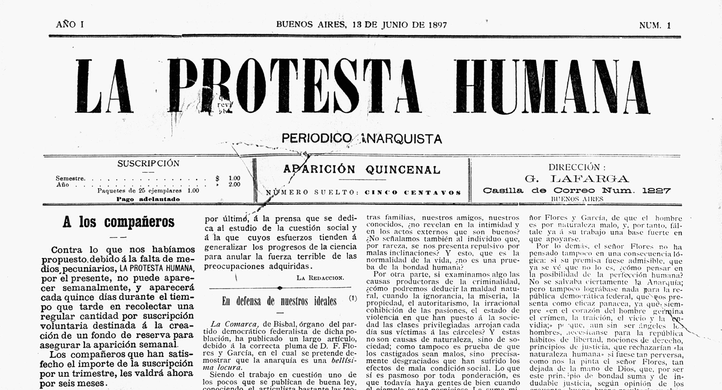 First edition of the anarchist newspaper La Protesta Humana from Argentina.